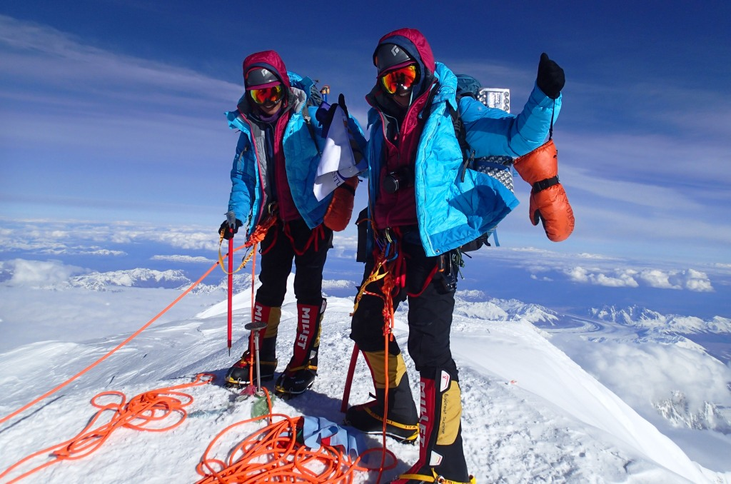 04 Jun 2014 at summit of Mt McKinley, Alaska